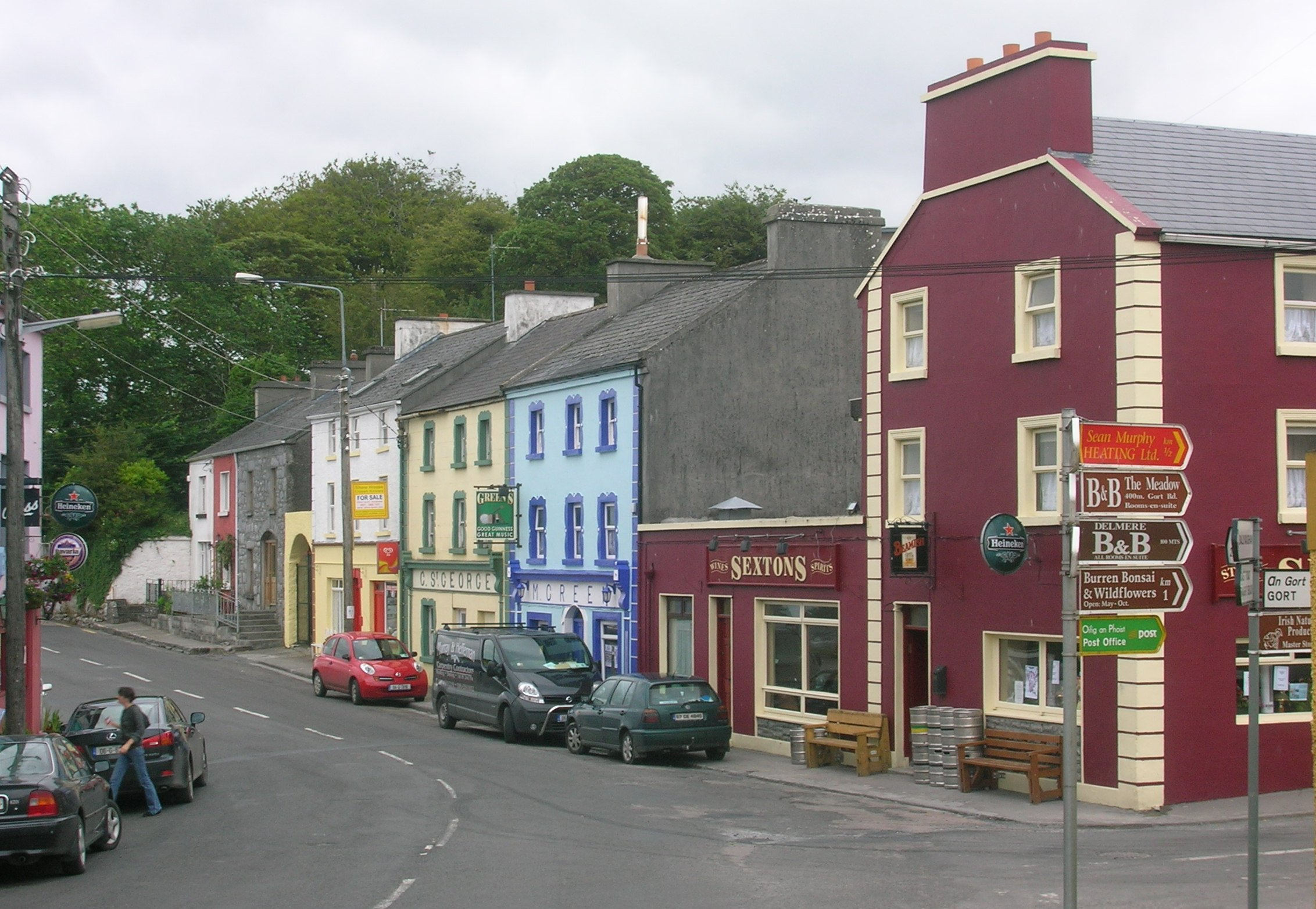 Street of Kinvara, County Galway, Ireland